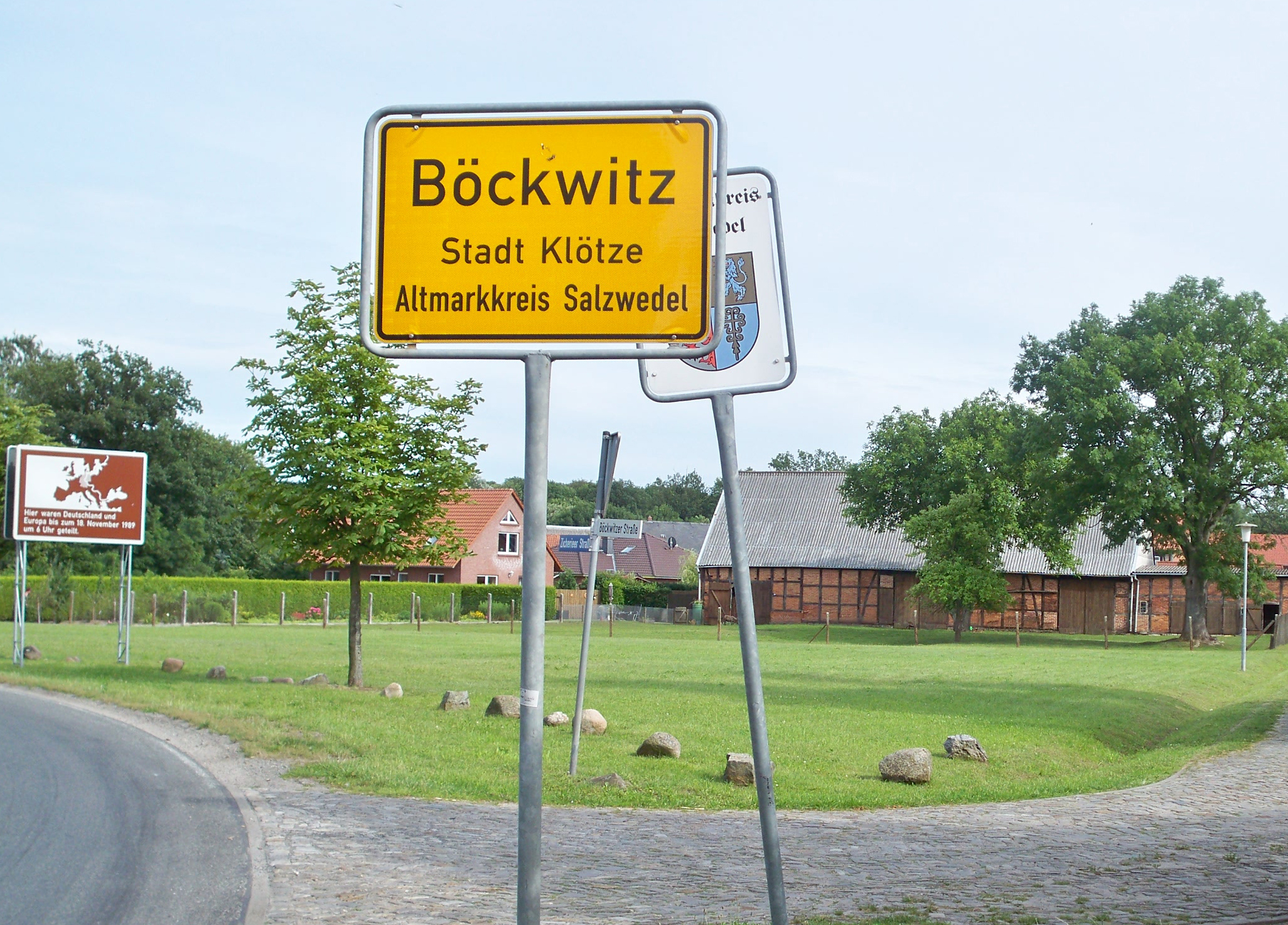 View towards Böckwitz, Saxony-Anhalt, from Zicherie, Lower Saxony